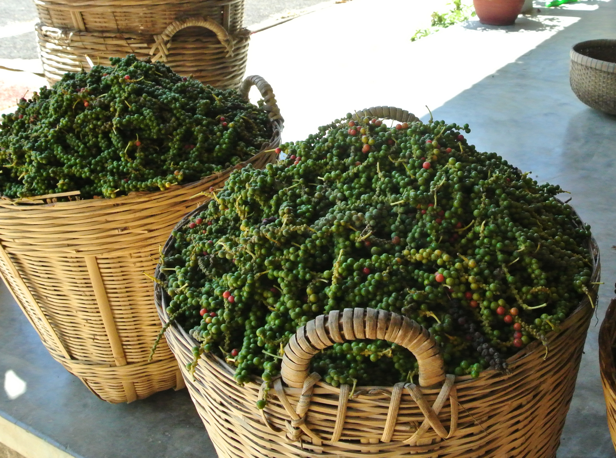 just now cropped pepper seed in farmer's house at PhuQuoc island Vietnam. 2015.